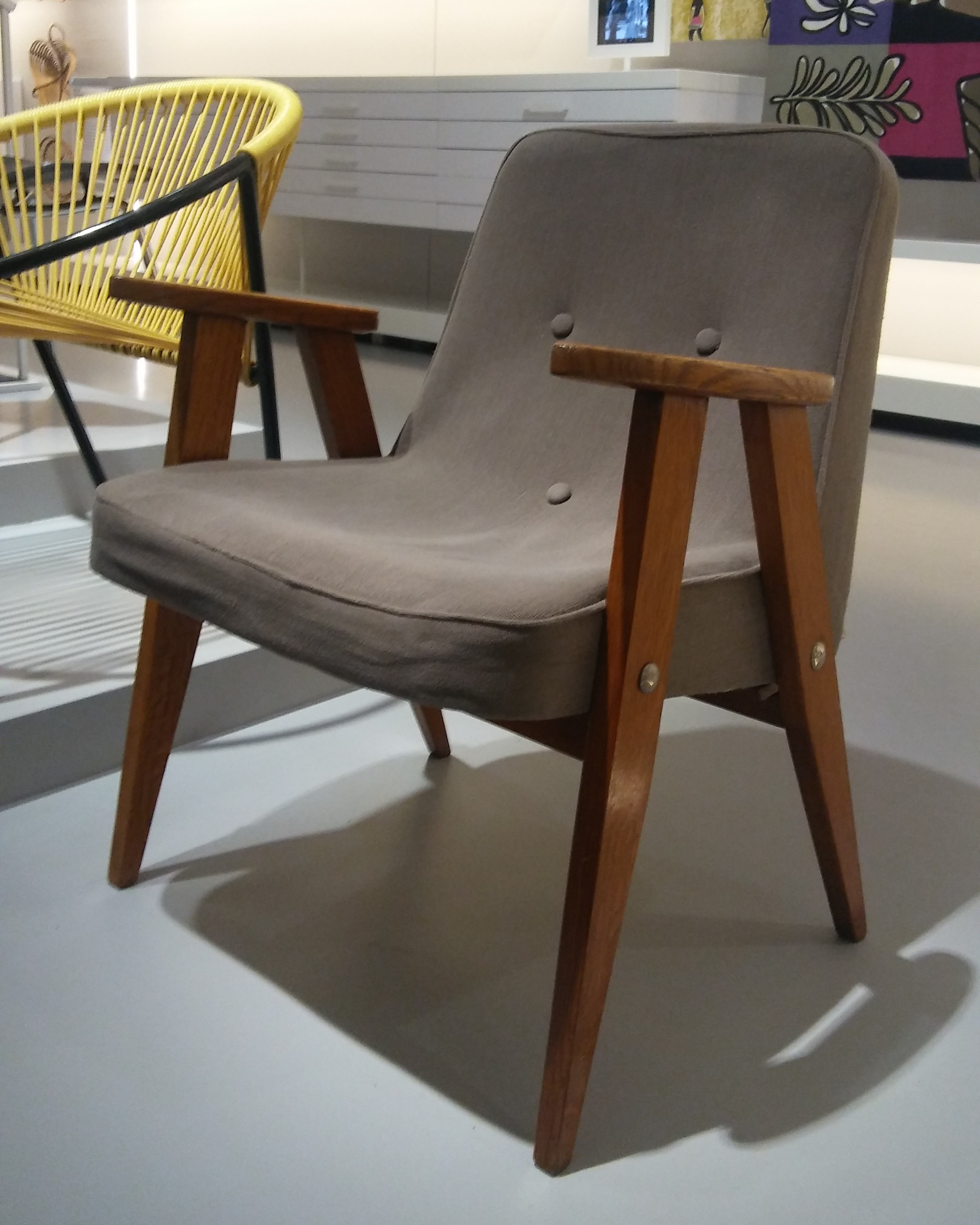 armchair "fotel 366" designed by Józef Chierowski from 1962, National Museum in Warsaw